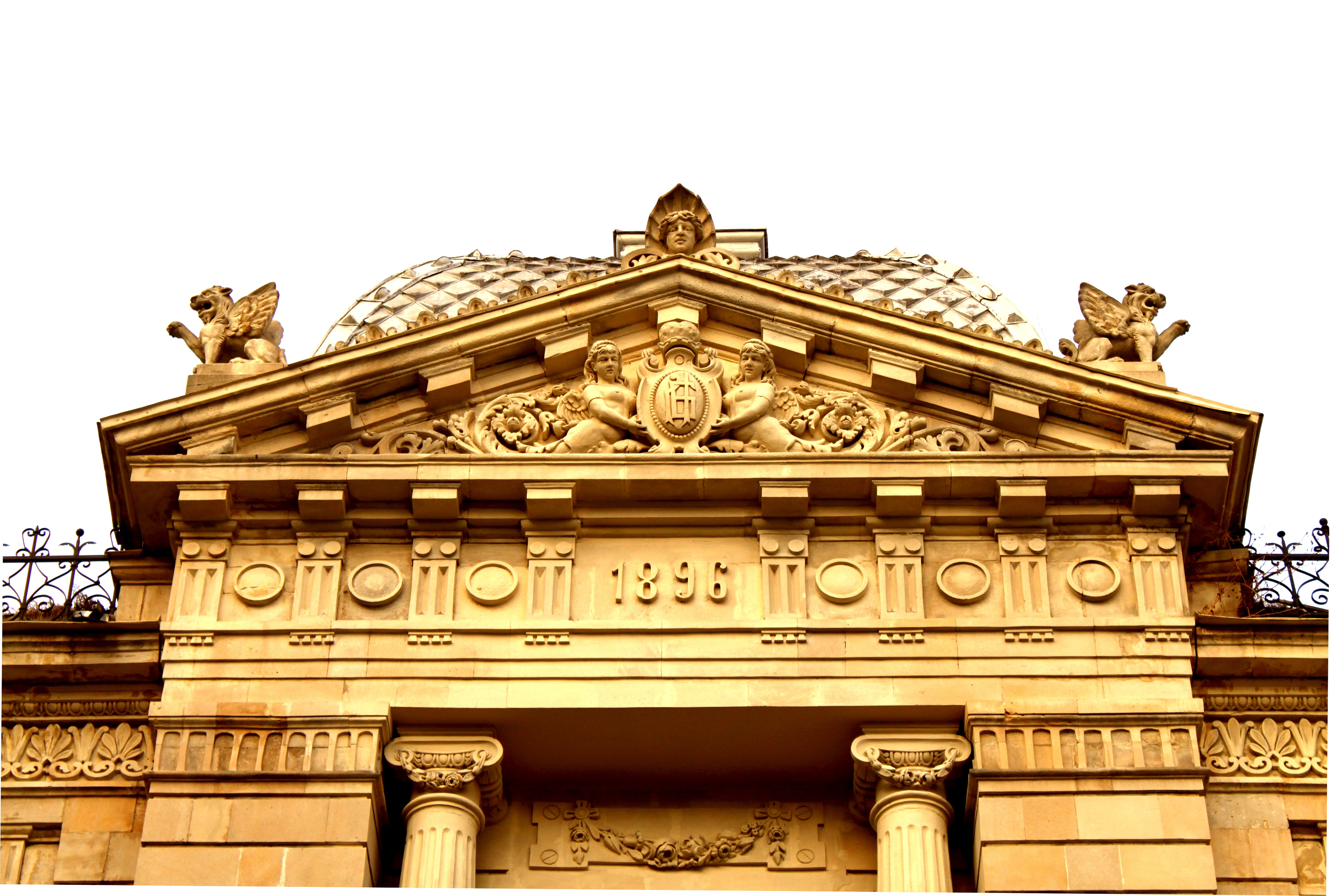 Facade detail of house building